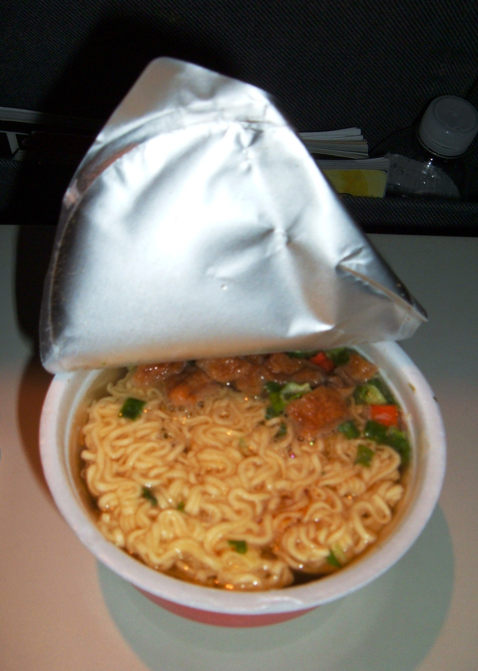 Cup of instant noodles served as a snack on a United Airlines flight from San Francisco to Beijing.